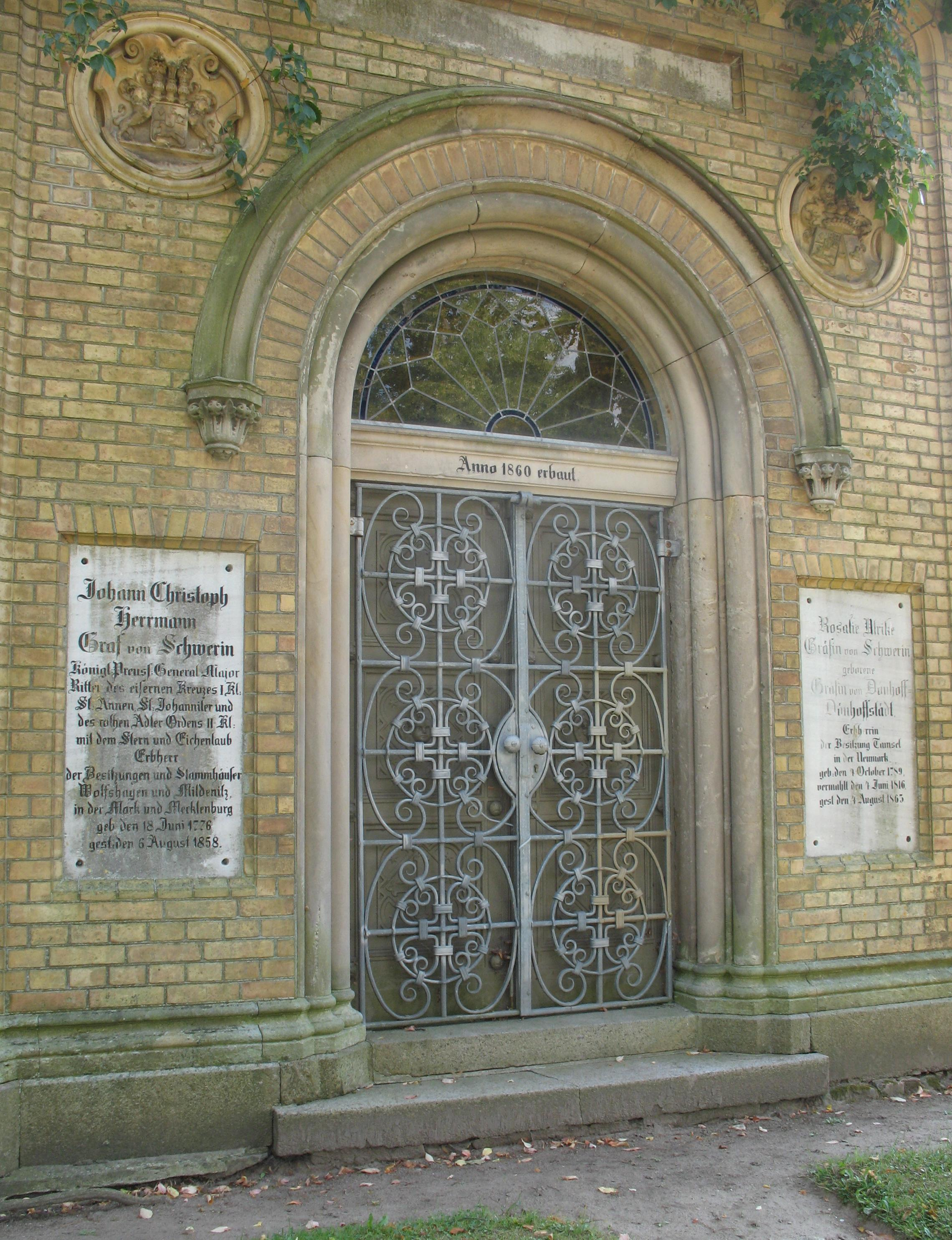 Tombs in Uckerland-Wolfshagen in Brandenburg, Germany